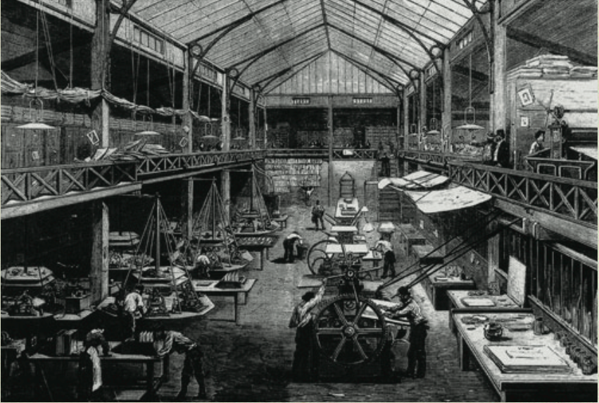 Les ateliers Goupil & Cie d'Asnières, typogravure print from L'Illustration, 12 April 1873.